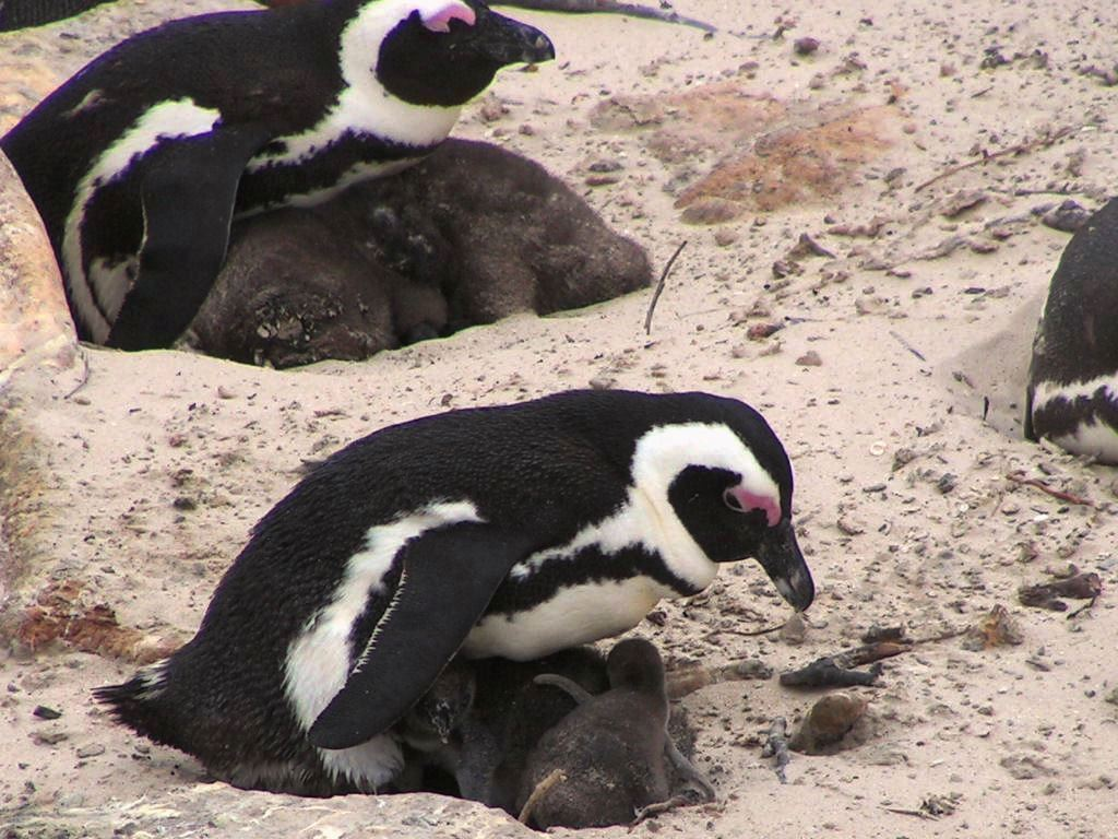 African Penguins (Spheniscus demersus) with chicks, Boulders Beach, South Africa